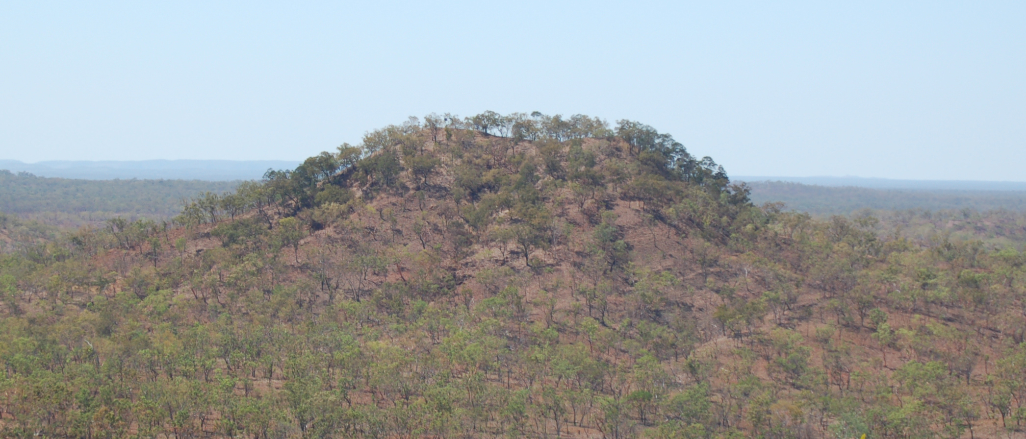 The female frilled-neck lizard terminal dreaming site, the place where the female frilled-neck lizard died and became the hill.